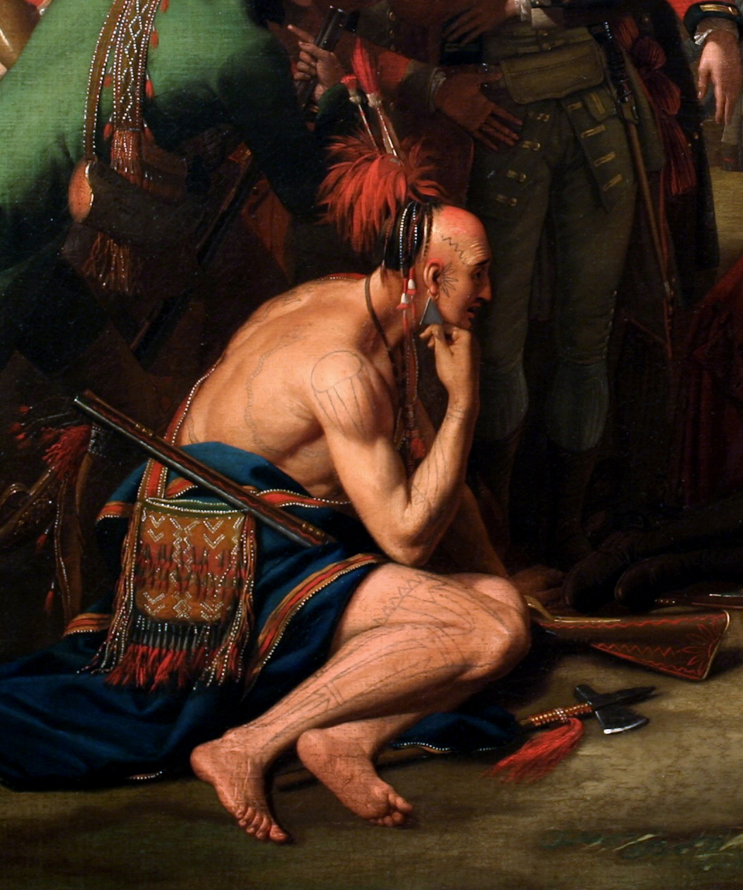 detail: Native American, noble savage.